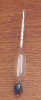 Hydrometer